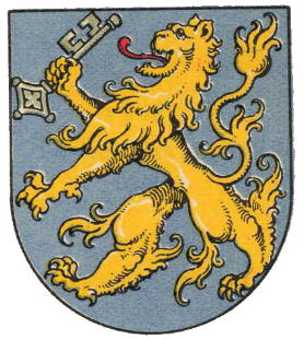 Coat of arms of Melk, Lower Austria